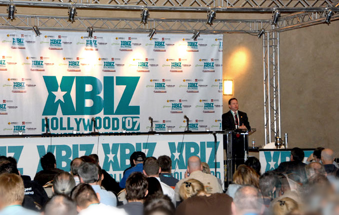 I took this photo, and release all copyright per the license indicated on this page. AkankshaG 05:13, 24 January 2010 (UTC)